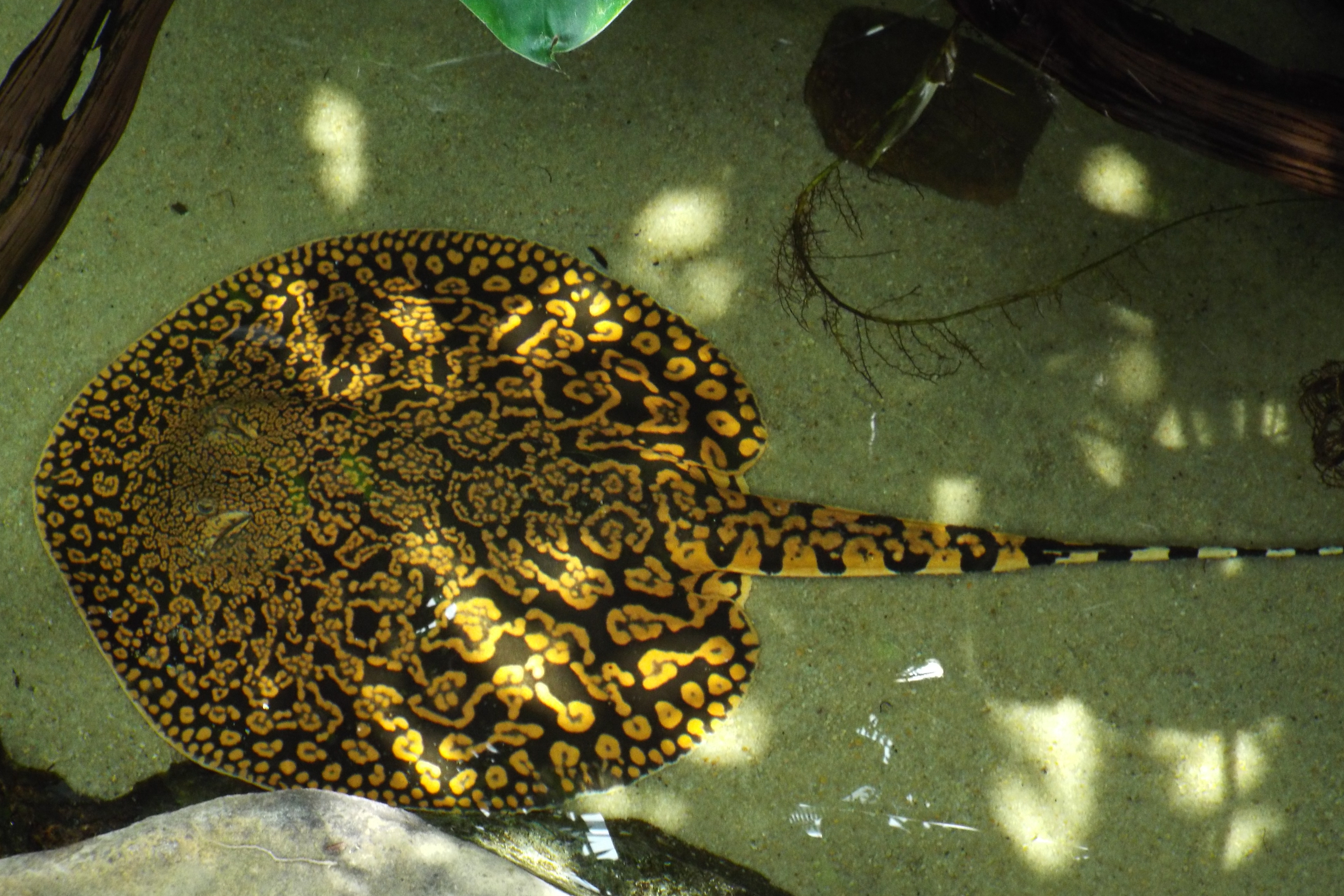 Potamotrygon tigrina in the Tennessee Aquarium in Chattanooga, Tennessee